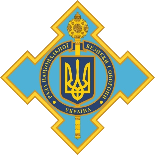 National Security and Defense Council of Ukraine emblem NSDCU